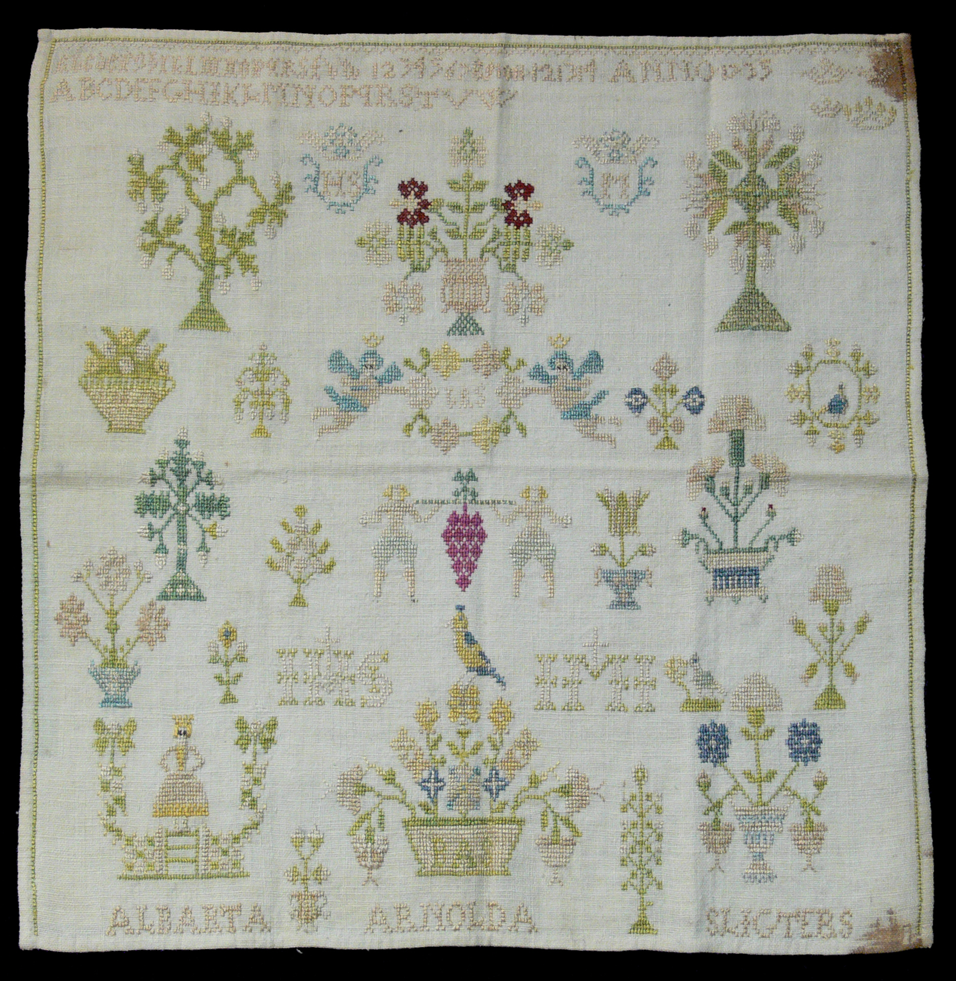 Cross stitch embroidery sampler of Alberta Arnolda Sligters, 1735. Reiss-Engelhorn-Museen, Mannheim, Germany.